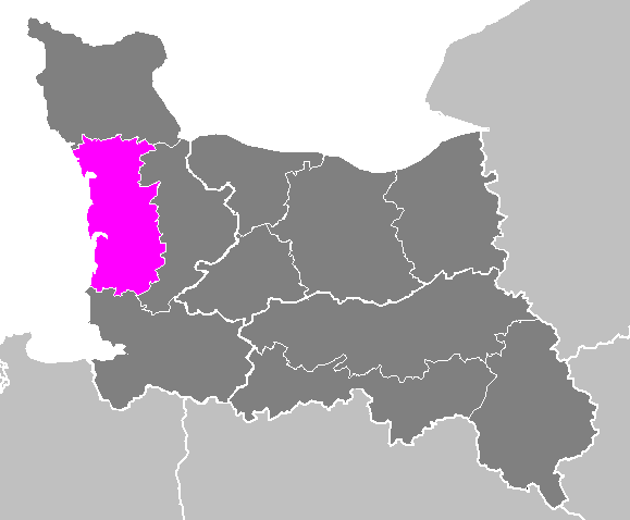 Maps of arrondissements and cantons of France: Arrondissement de Coutances.PNG